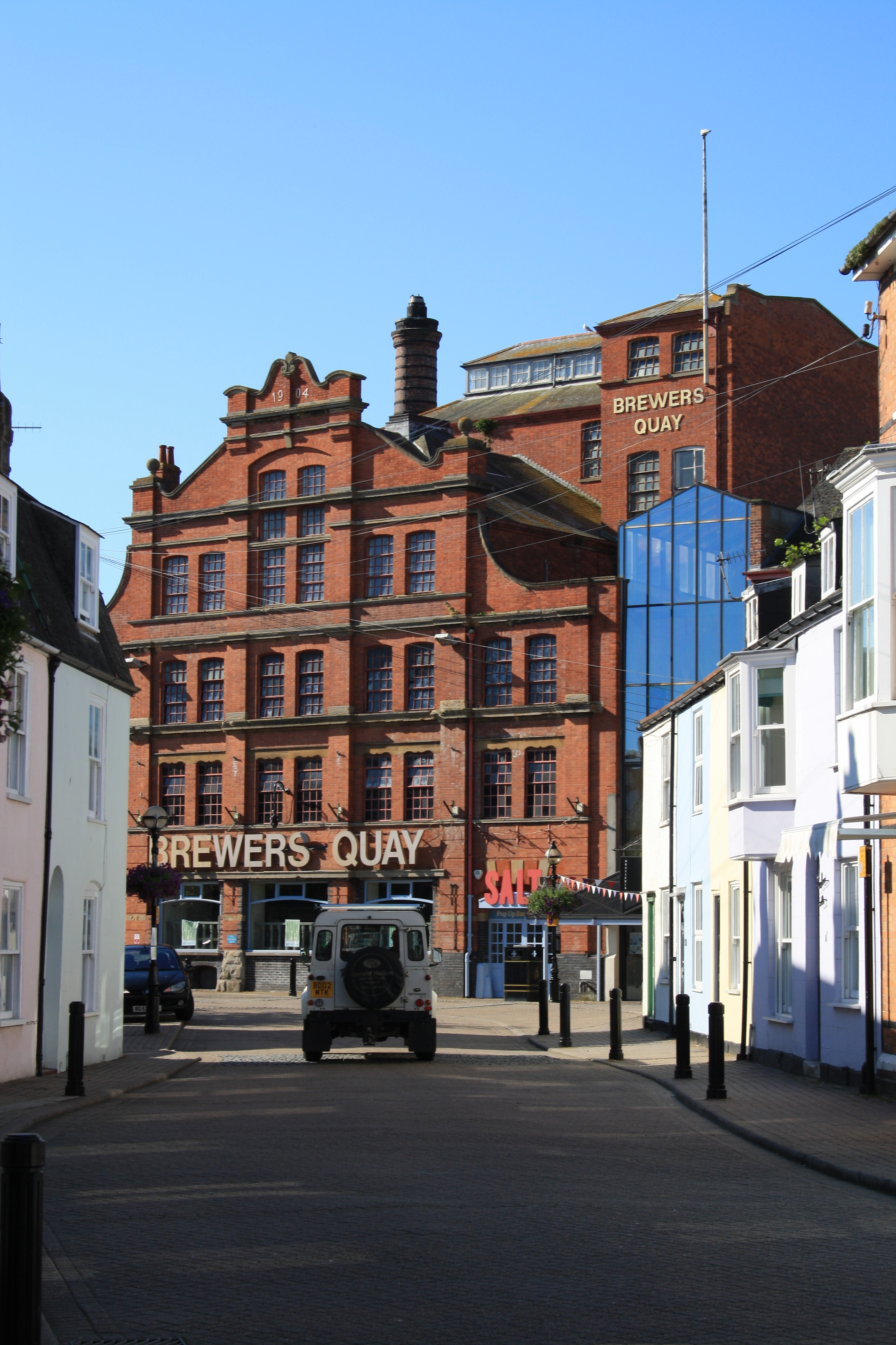 View along Cove Street to Brewers Quay in Hope Square, Weymouth, Dorset, England.